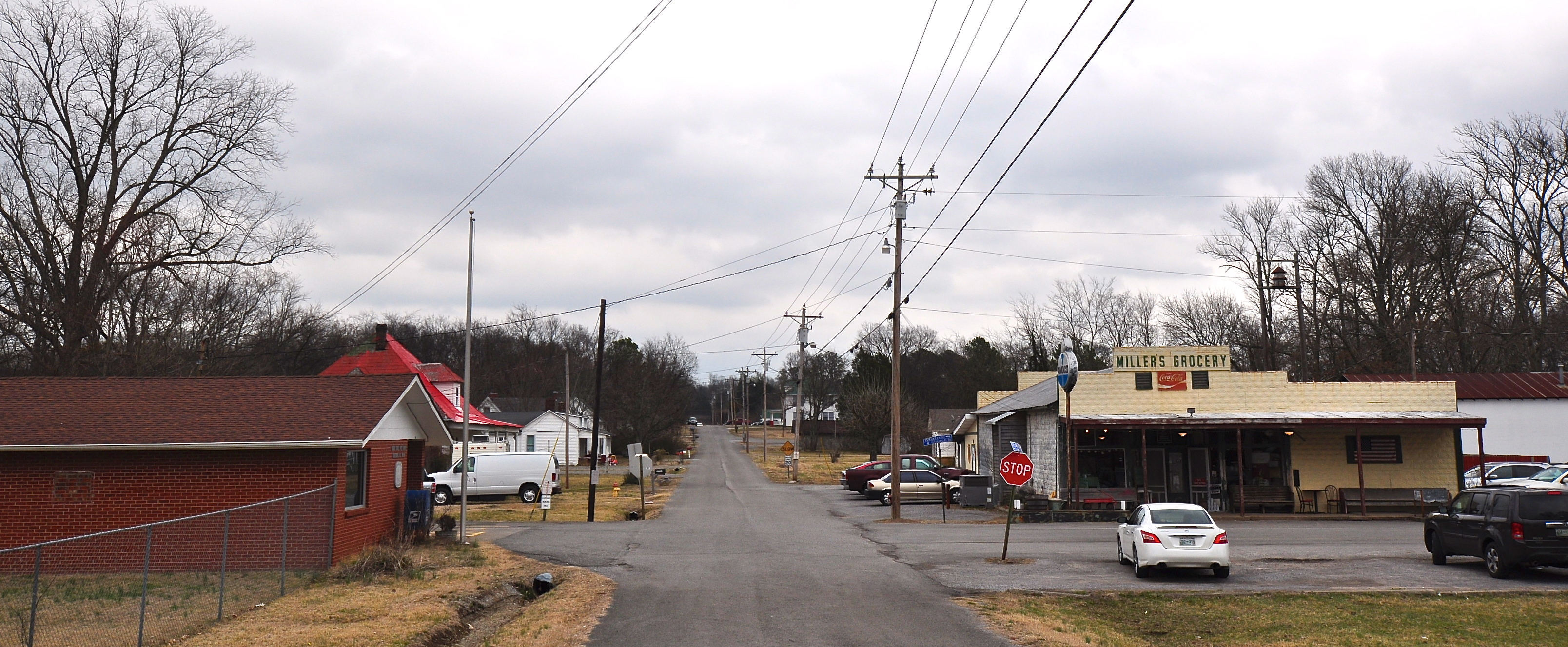 The junction of Main and Church Streets, Christiana, TN.